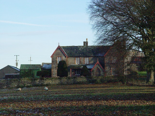 Penruddock Hall.